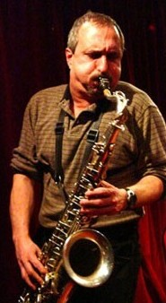 Taken by me, Ayn Inserto